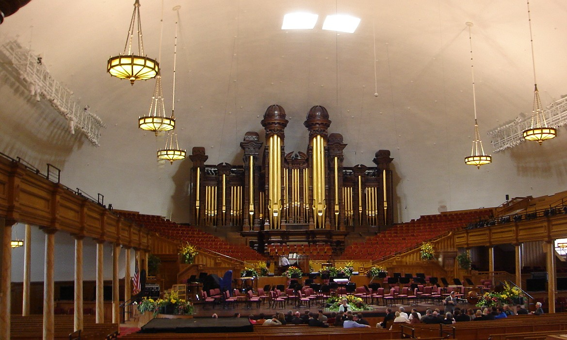 Tabernacle Organ